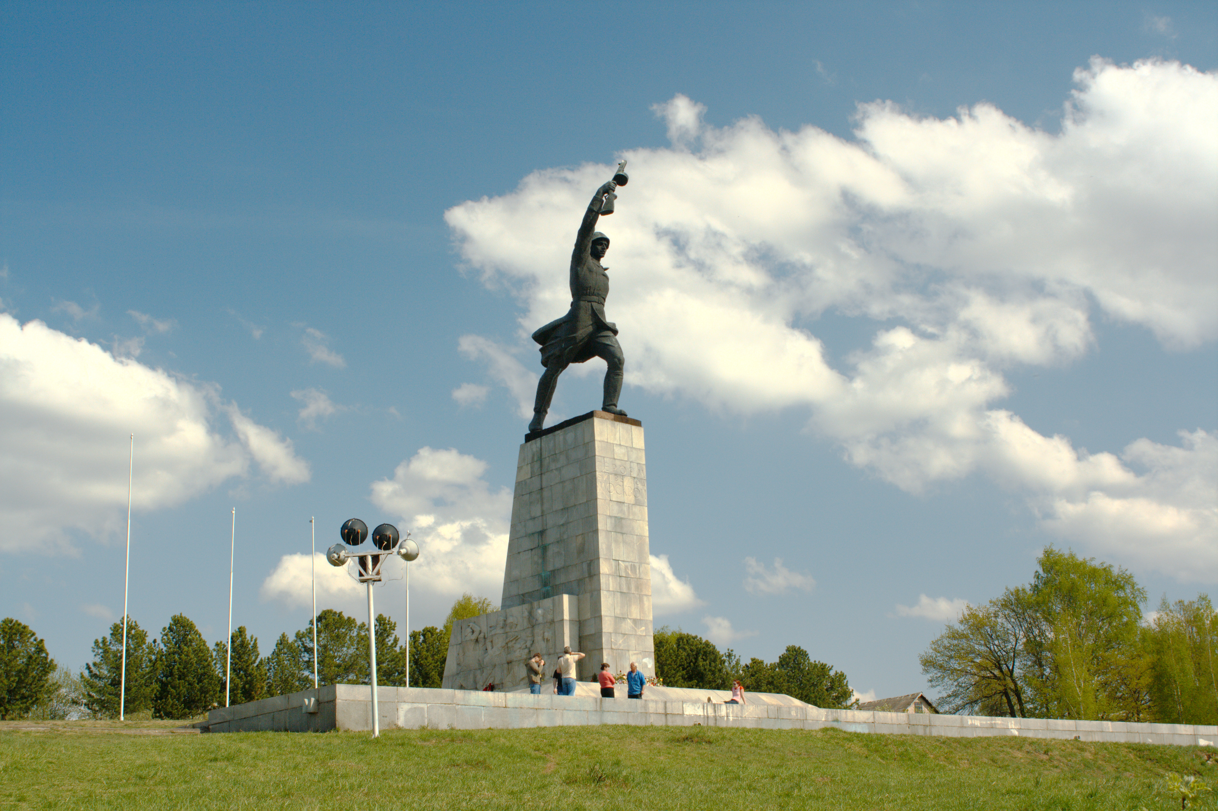 Monument to fallen WWII soldiers in battles against the fascist forces in the "Peremilovskoy height, near the town Yakhroma, Moscow region, Dmitrov district, Russia.